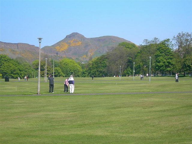 Pitch & Putt People enjoying a game of Pitch & Putt on Bruntsfield links on a bright but chilly Sunday afternoon in May. Arthur's Seat provides a spectacular backdrop.